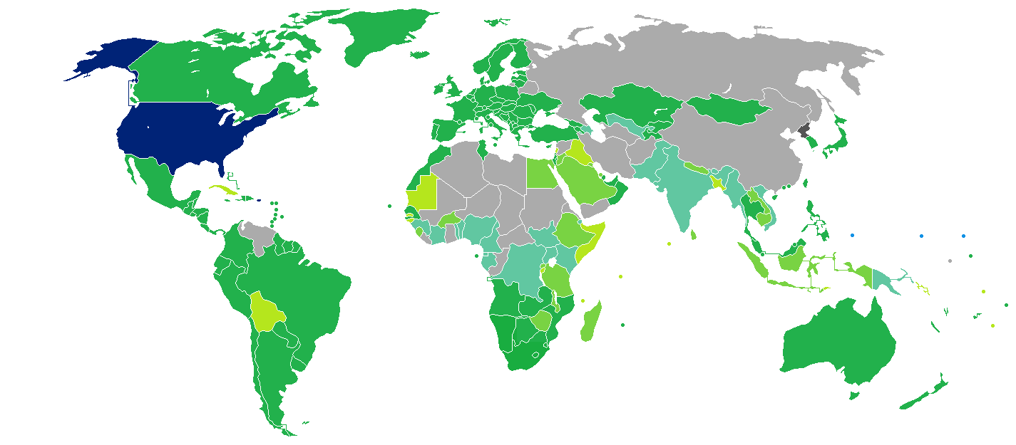 Visa Requirements for US citizens map USA Visa free access Visa on arrival eVisa Visa available both on arrival or online Visa required No entry Admission refused